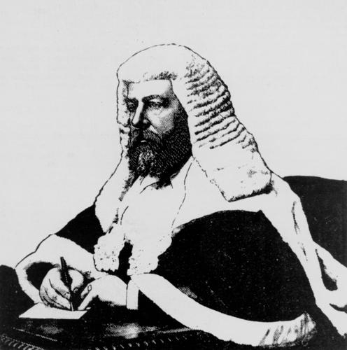 George Rogers Harding was born in Somerset, England, on 3 December 1838. Gravitating toward the legal profession he was called to the Bar in 1861. Arriving in Brisbane with his wife Emily Morris in October 1866, he was immediately admitted to the Bar. In April 1876 he was appointed a commissioner under the 1872 Civil Procedure Reform Act and in July 1879 became senior puisine judge of the Supreme Court of Queensland. He became ill during a trial and died 31 August 1895 in his chambers after delivering a judgement. (Information taken from: Australian dictionary of biography, volume 4, 1972)